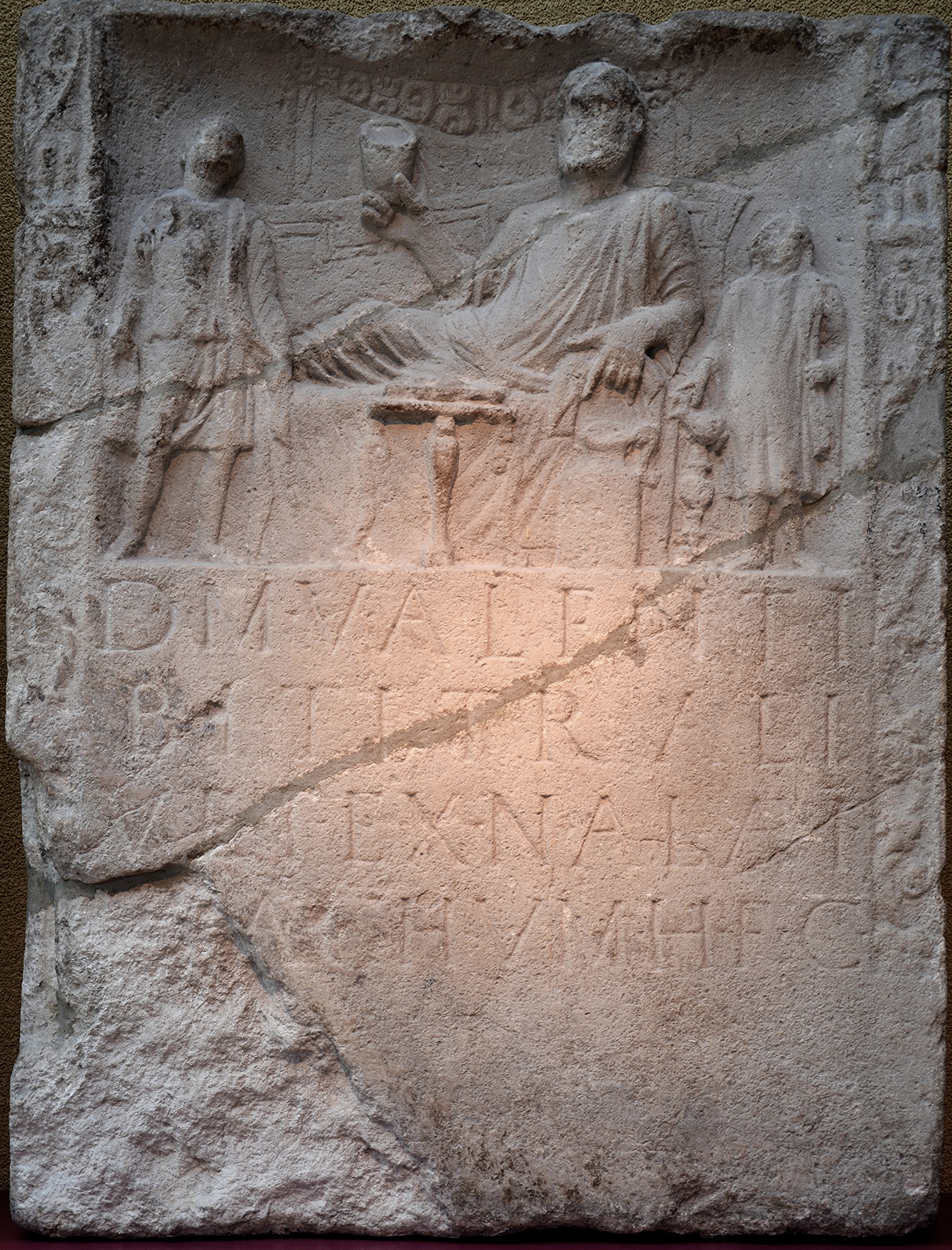 From Thrace to Fectio: Tombstone of Valens, son of Bititralis, 2nd century AD, found at the ancient site of Fectio (Vechten), Rijksmuseum van Oudheden, Leiden